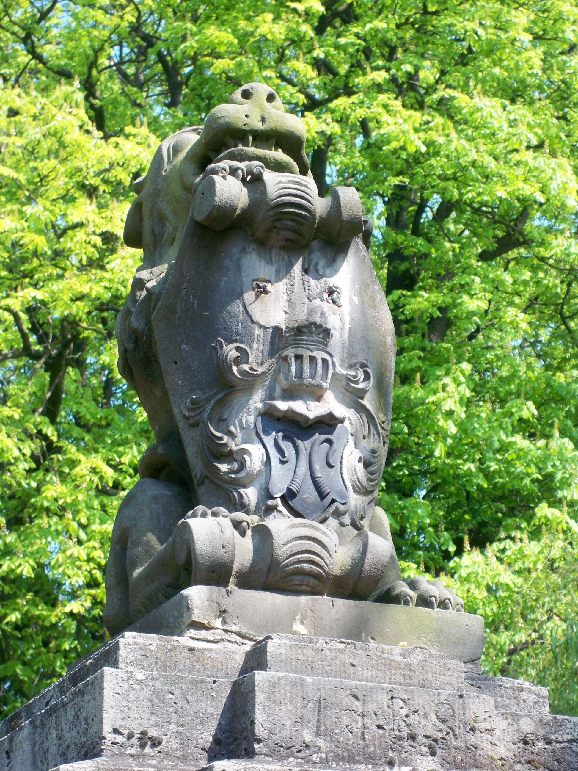 Essenrode, Germany. Entrance gate to Essenrode Castle (detail)